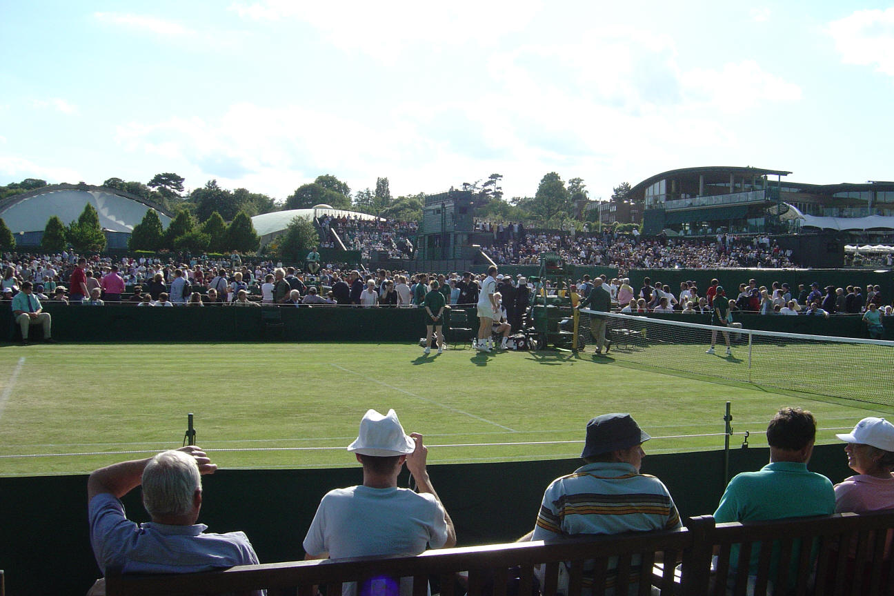 Taken looking out to court no. 10 on 1st friday in the 2004 Championships. ricjl 00:33, 2 Jul 2004 (UTC)